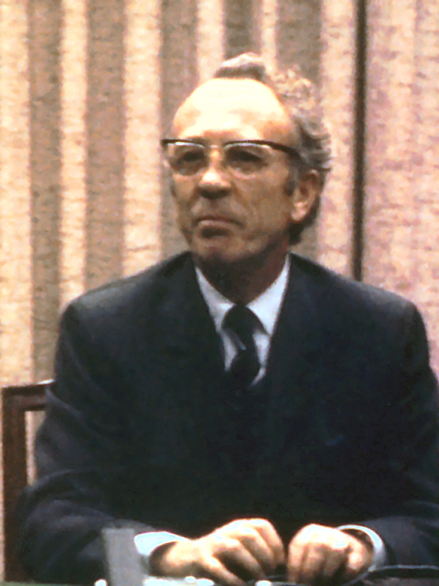 Tommy Douglas, former Premier of Saskatchewan